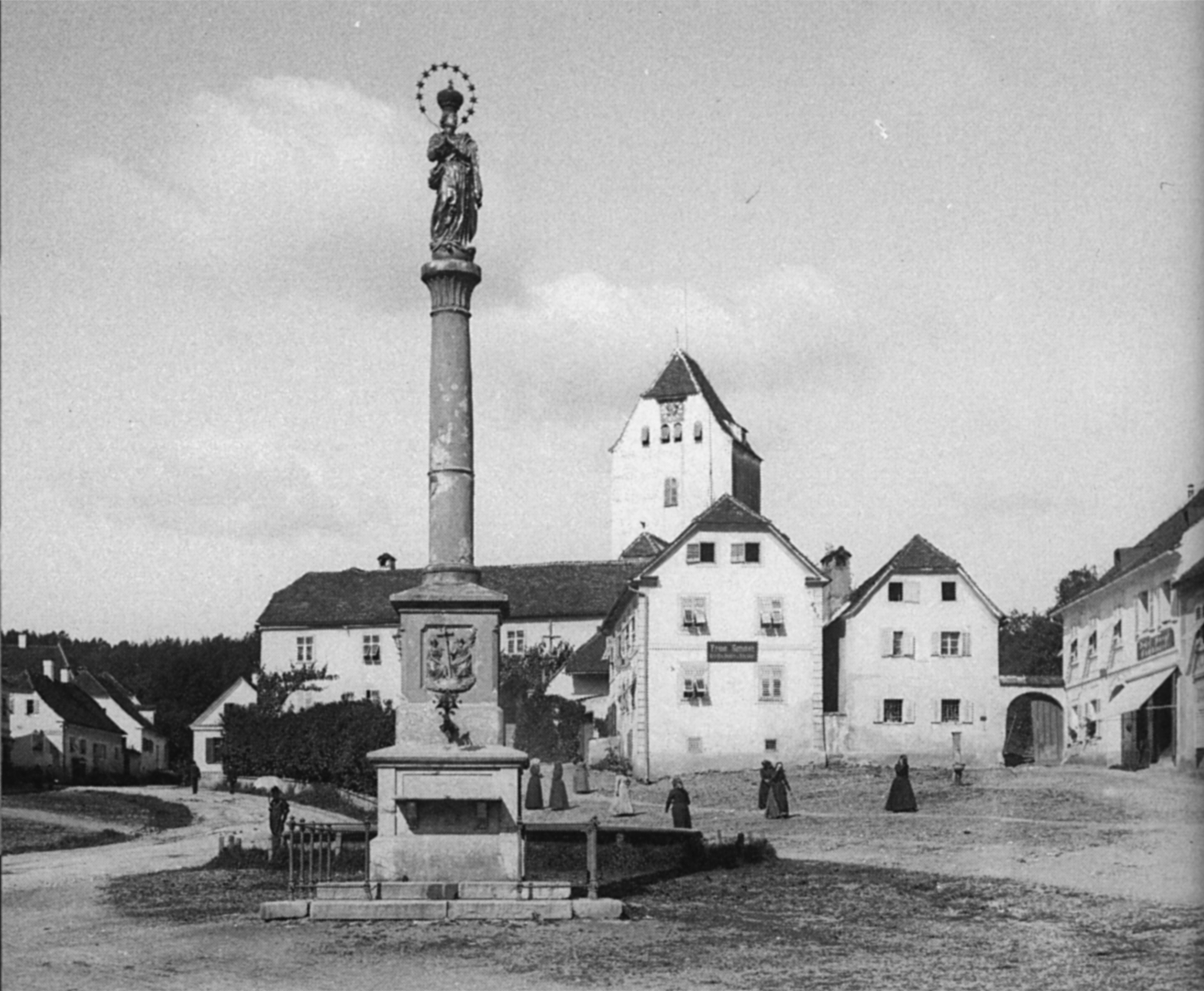 Petschar, Friedlmeier, Steiermark in alten Fotografien, Ueberreuther Verlag Wien. Scanprojekt Community Projektbudget 2012 This scan or this PDF-file was created within the GLAM-project Bookscanning, supported by Wikimedia Germany and Wikimedia Austria as a part of the community-project to capture books, documents and pictures which are not eligible to copyright or for which the copyright has expired. This document describes or depicts an object which is located in Austria today. Texts are written German language. Send requests for uncompressed scans to Hubertl. This work is in the public domain in its country of origin and other countries and areas where the copyright term is the author's life plus 100 years or less. You must also include a United States public domain tag to indicate why this work is in the public domain in the United States. This file has been identified as being free of known restrictions under copyright law, including all related and neighboring rights.